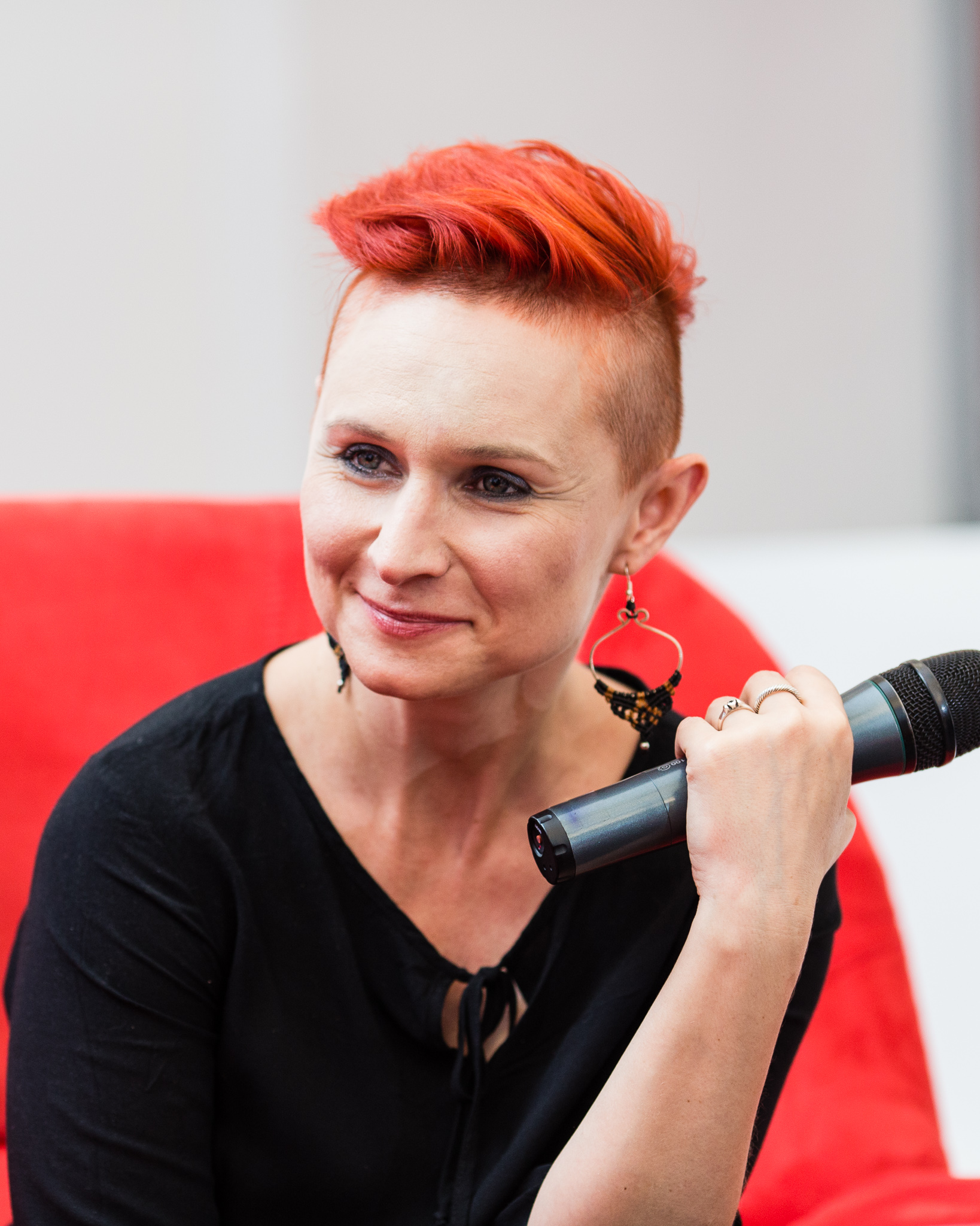 Zośka Papużanka on Authors’ Reading Month 2017, Wrocław, Poland